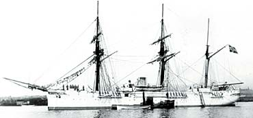 The Royal Norwegian Navy gunship Ellida, after her 1896 rebuild. Official Royal Norwegian Navy photo from 1896 or shortly after.